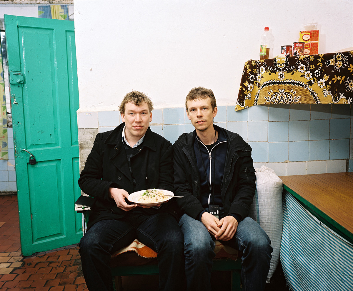 The writer Arnold van Bruggen (left) and the photographer Rob Hornstra (right) in the prison in Dranda (the only prison of Abkhazia)